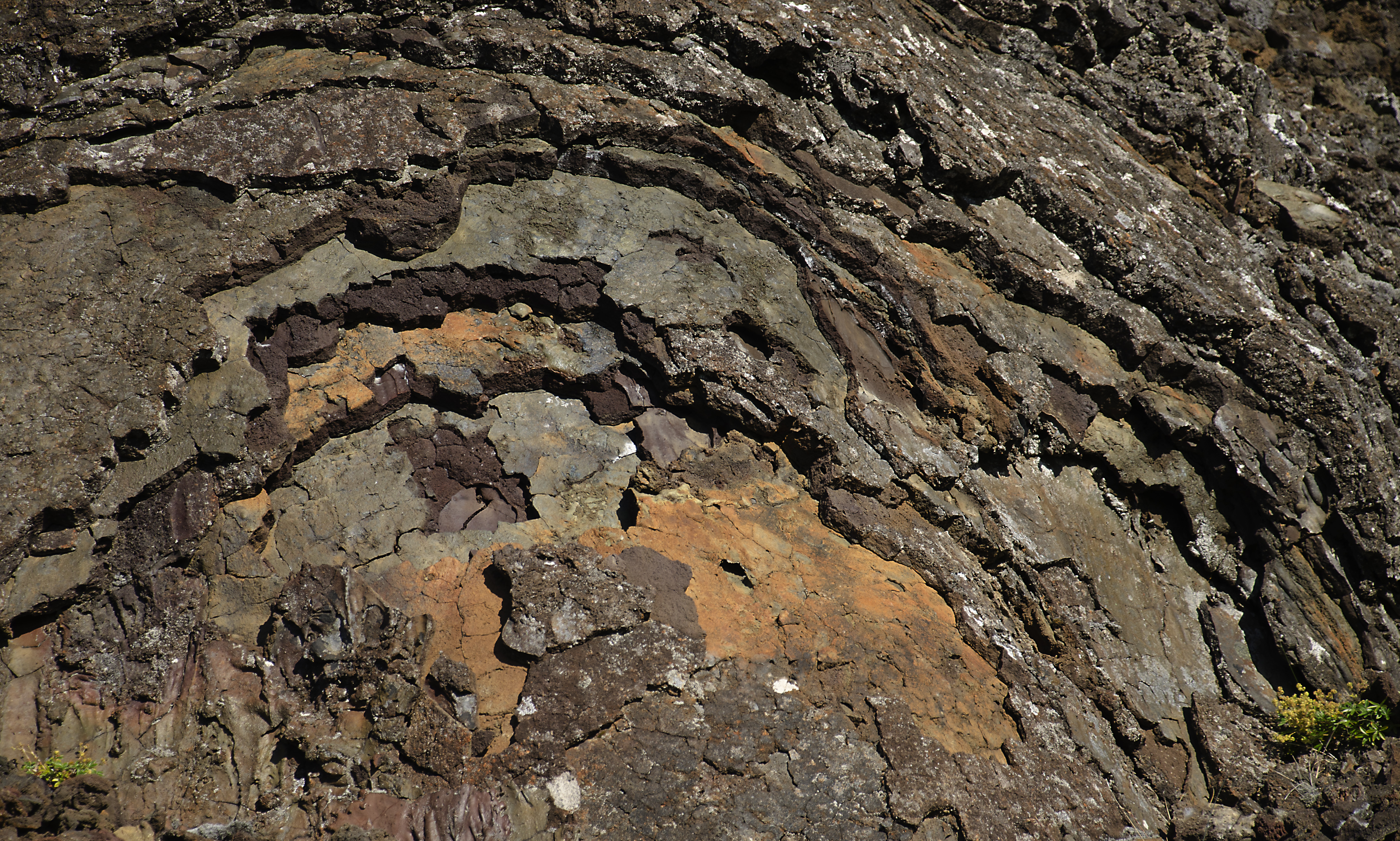 Rock formation, Eldborg mountain, Iceland